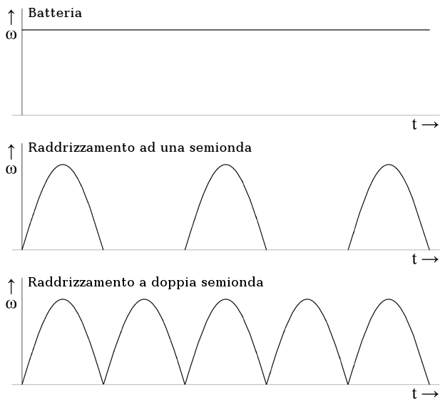 Current rectification diagram with Italian captions